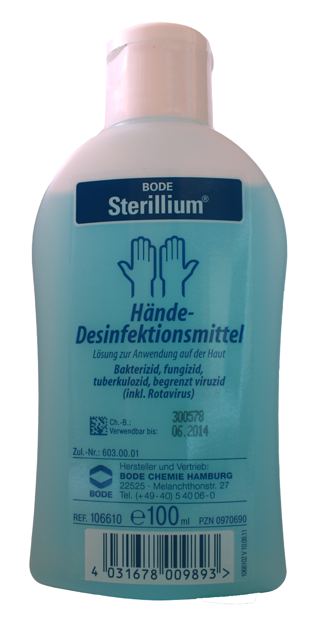 A 100 ml bottle of BODE Sterillium, a hand disinfection solution made by BODE Chemie and widely used in Germany.